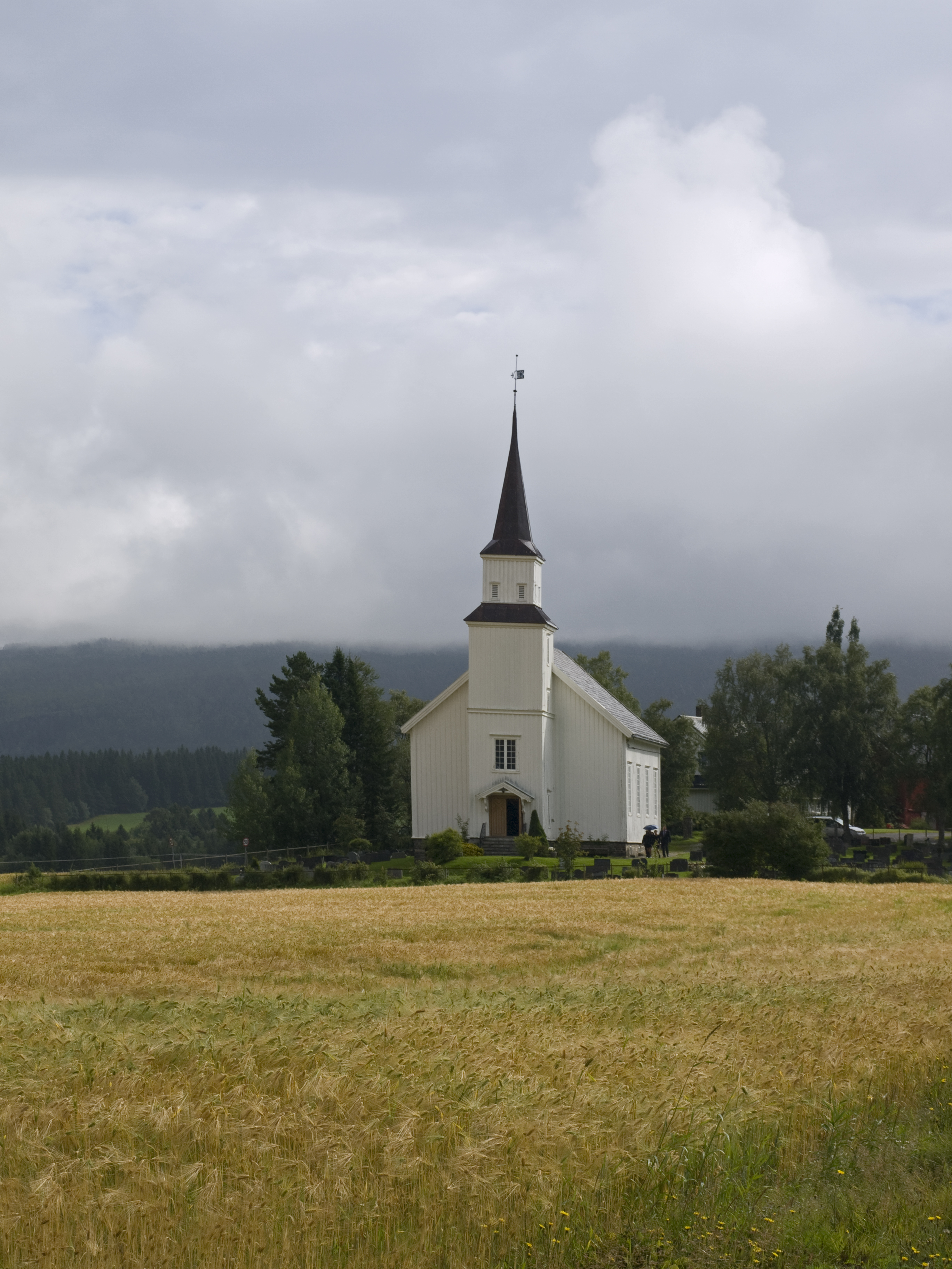 Henning Church, Vekre, Nord-Trøndelag, Norway